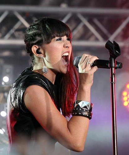 Mindi Jackson performing live with her band The Rogue Traders at the Take 40 Live concert 2010.